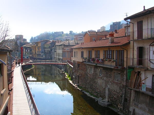 The river Nigoglia in Omegna, Piemonte, Italy picture taken by user:Idéfix, march 25, 2006